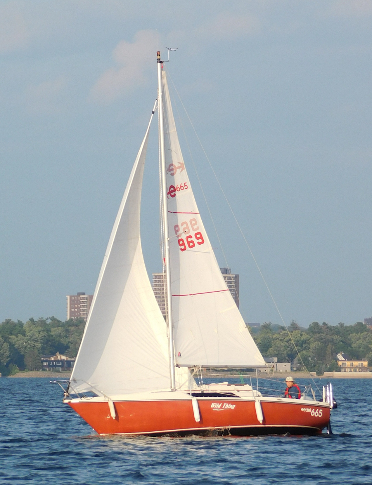 An Edel 665 sailboat named Wild Thing.